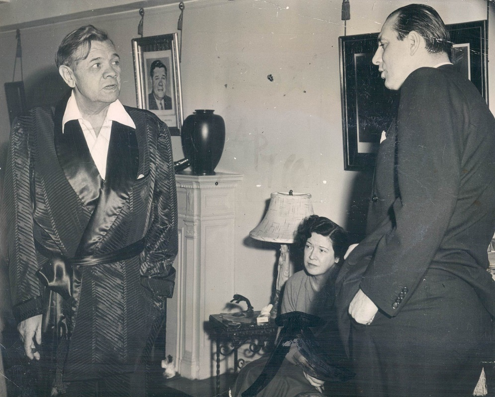 Babe Ruth with wife Claire and Hank Greenberg at Ruth's Riverside Drive apartment in New York City.